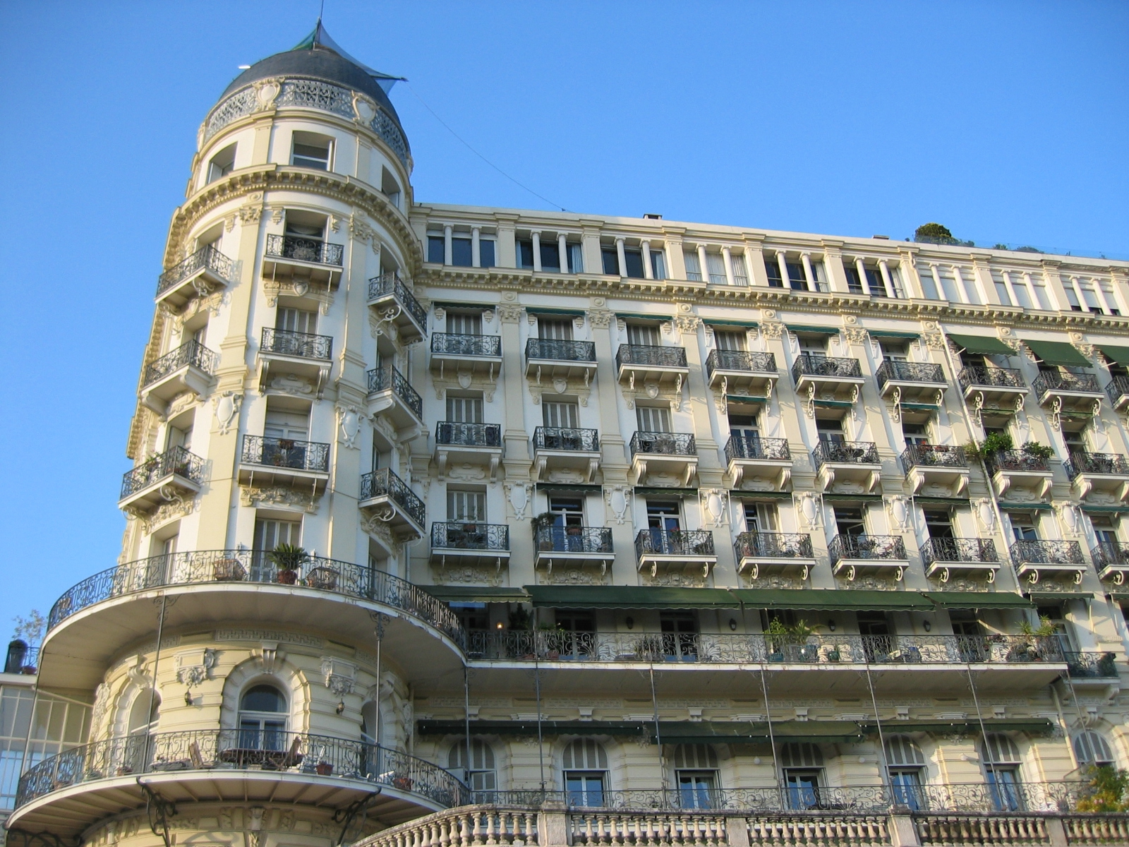 Le Regina, formerly Excelsior Régina Palace, in Nice, France.